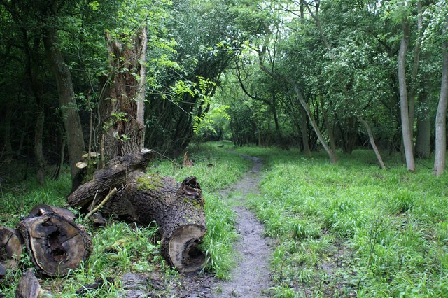 Jurassic Way long distance trail. Route through Fineshade Woods, part of Rockingham Forest in Northamptonshire.